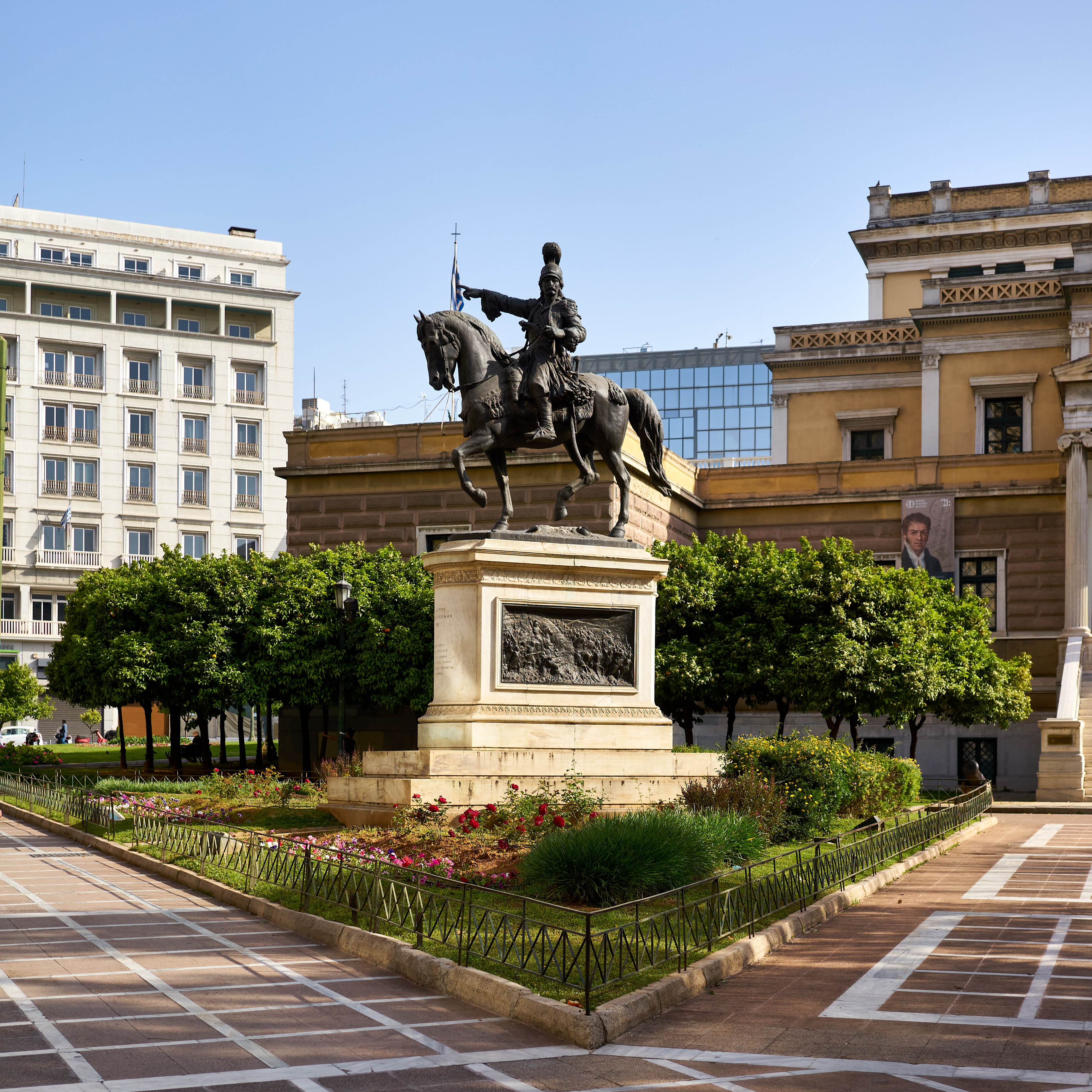 The bronze equestrian statue of Theodoros Kolokotronis by the sculptor Lazaros Sochos (1862-1911) on Stadiou Street in Athens.